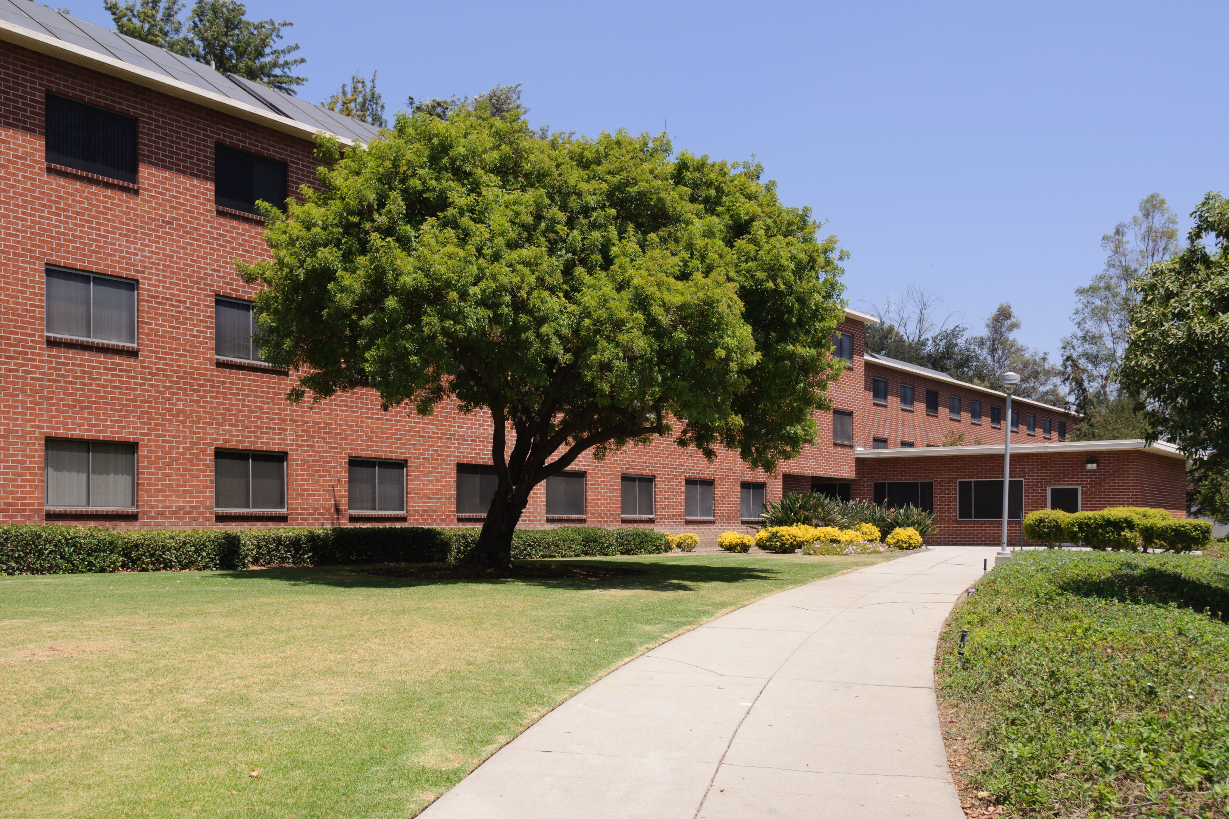 Aliso Hall (Building 23), California State Polytechnic University, Pomona, California.